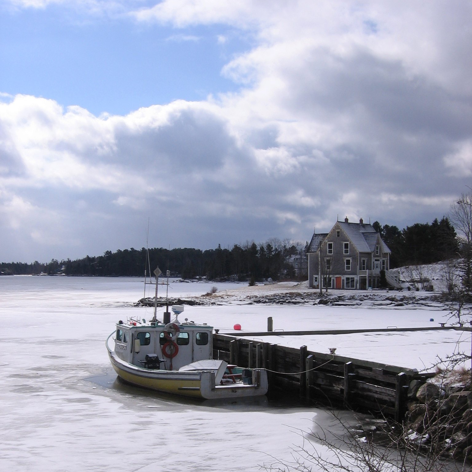 View of Chester Basin in winter showing fishing boat and building in the background.